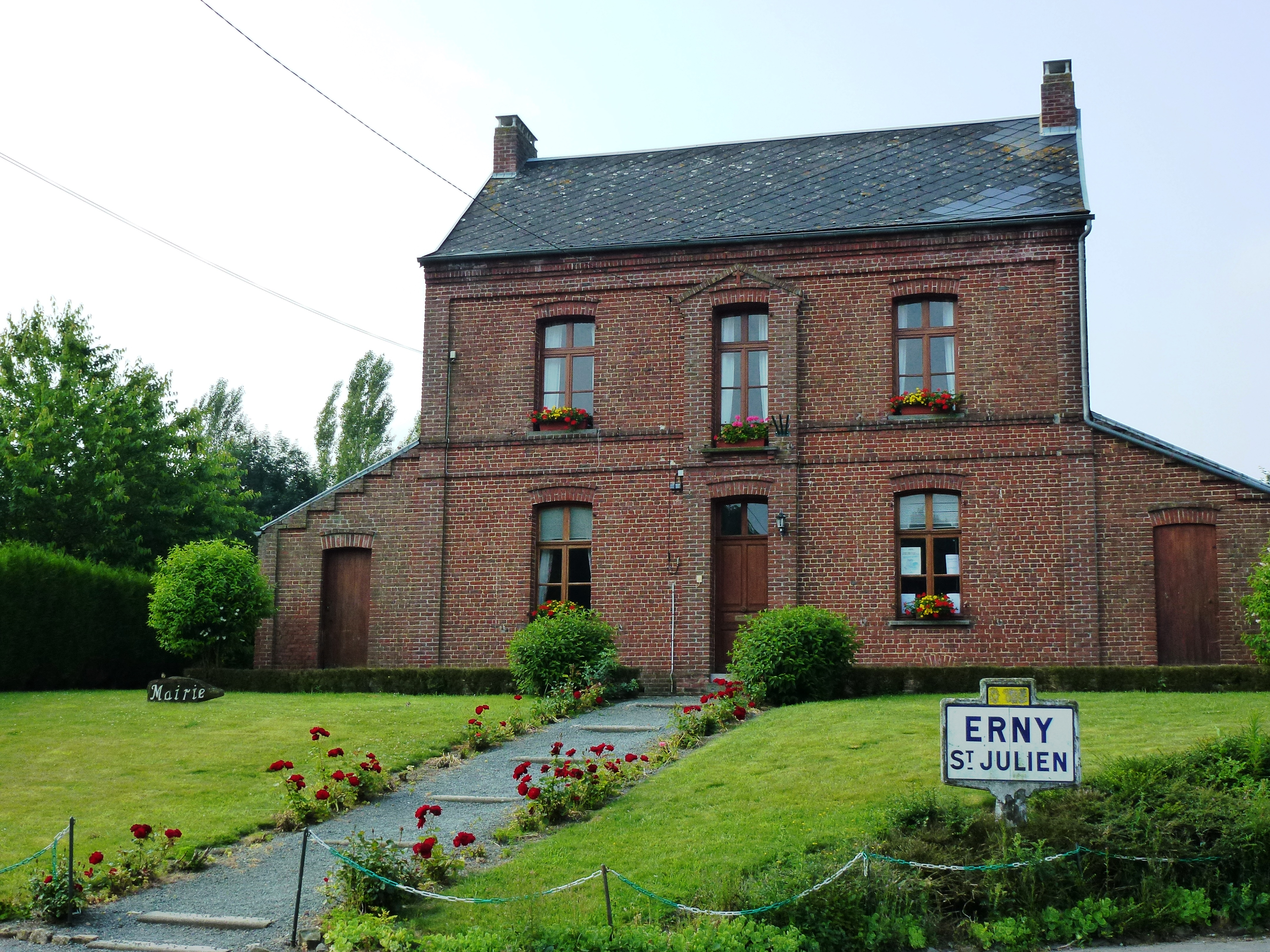 Erny-Saint-Julien (Pas-de-Calais, Fr) mairie